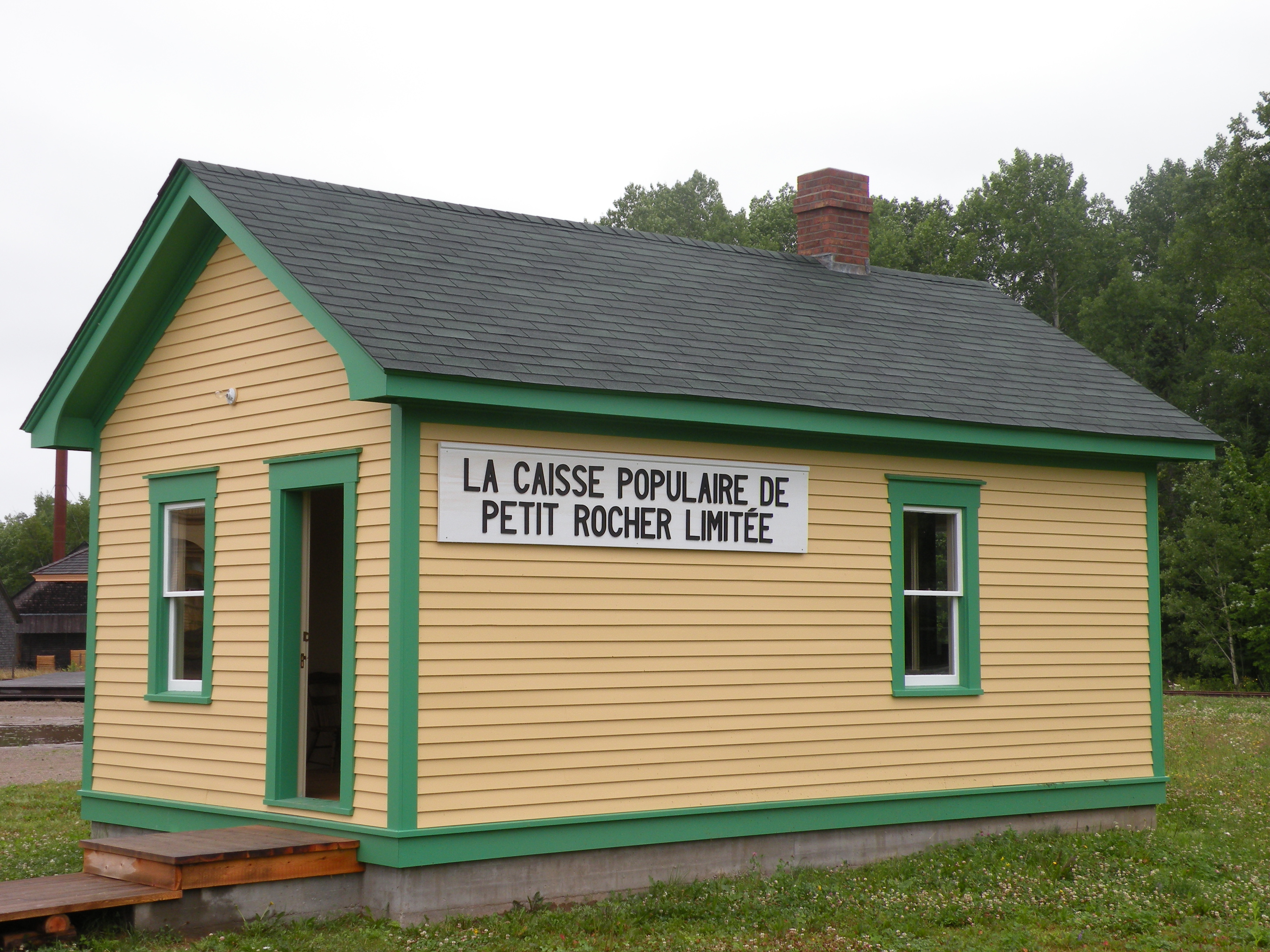 The credit union of the Acadian historic settlement.